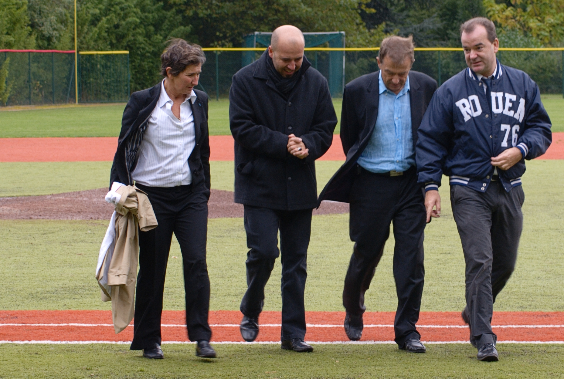 Valérie Fourneyron on 2010, 23 Oktober in Seine-Maritime, Haute-Normandie, Frankreich, with Didier Seminet (President of Fédération française de baseball (with folded hands) and Xavier Rolland President of Huskies (at the right)